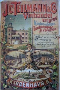 Old poster from J.C. Teilmann & Co., wine merchants in Copenhagen.